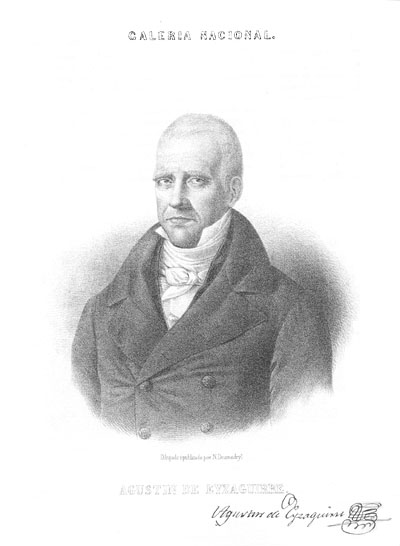 Agustin_Eyzaguirre